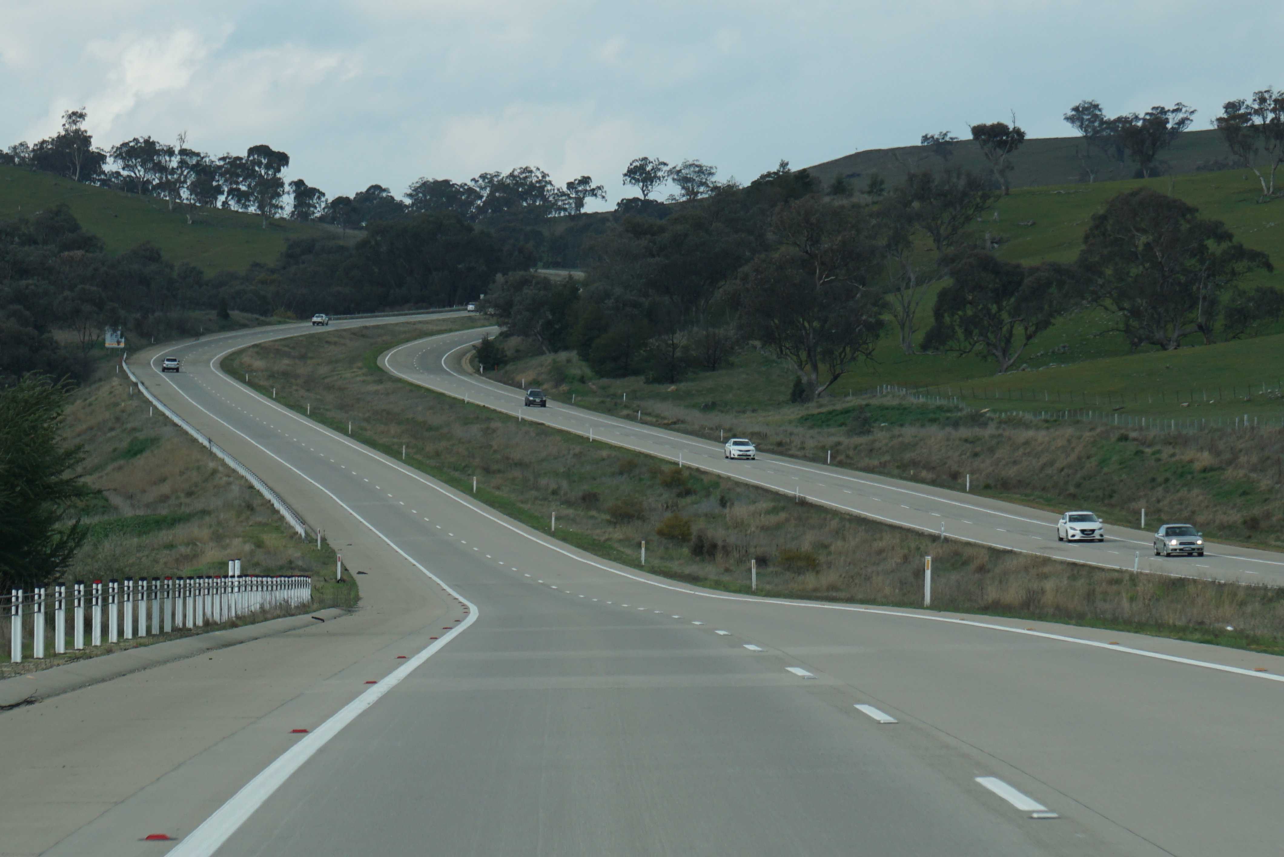 Hume Highway between Gundagai and Goulburn